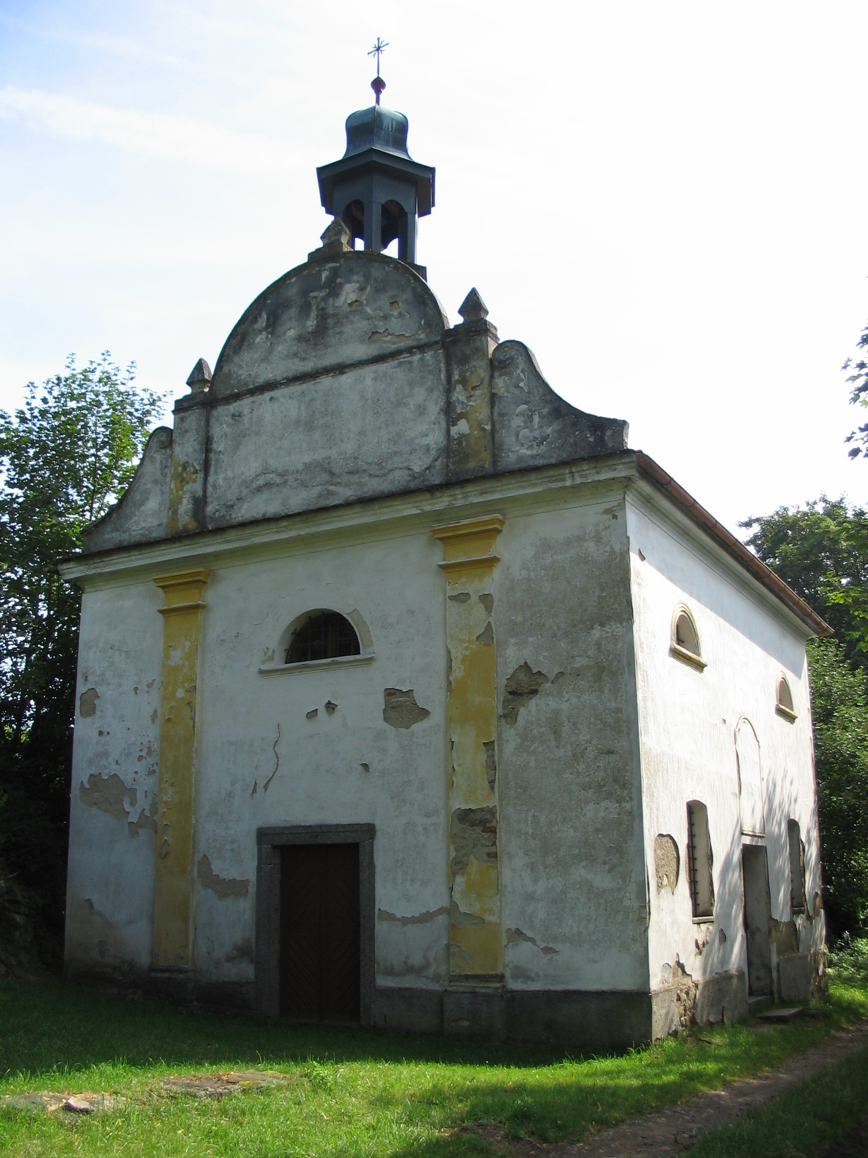 Chapel in Rok near Sušice, Klatovy District, Czech Republic